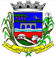 Coat of arms of the city of Cristal, Rio Grande do Sul, Brazil.